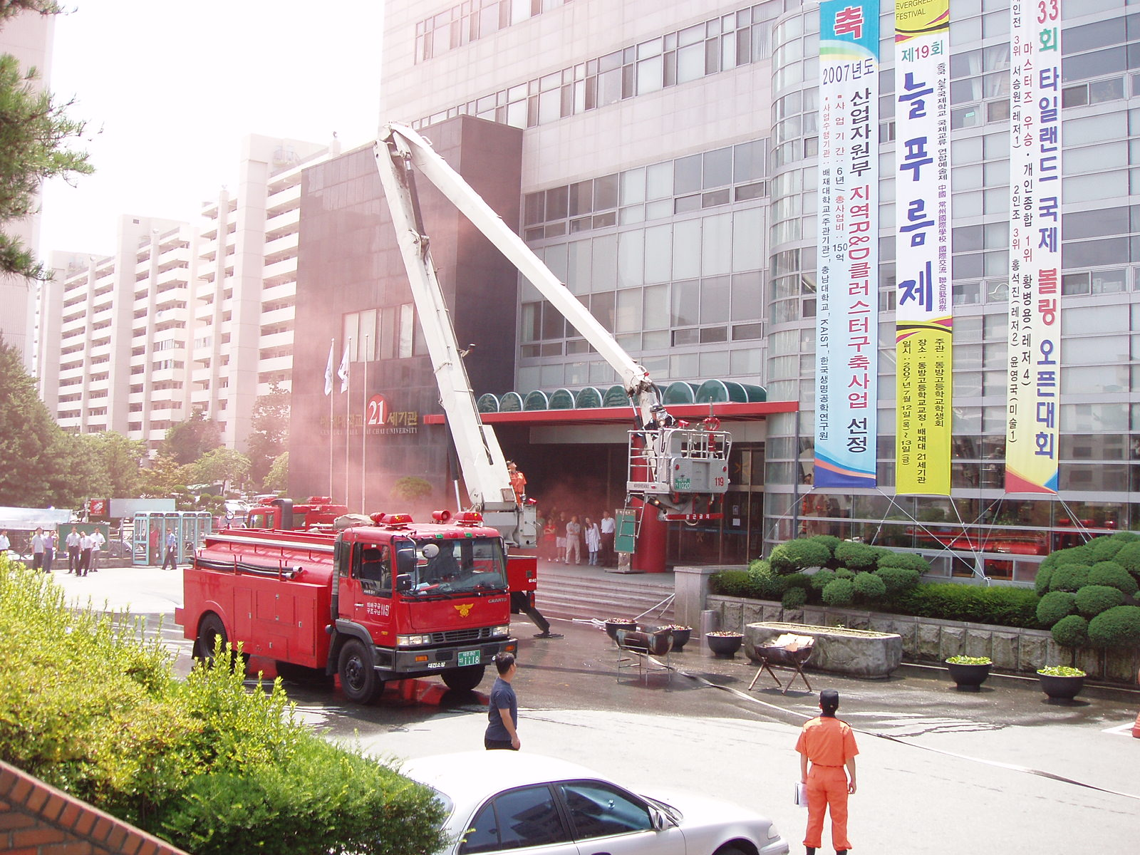 Firefighters perform fire drill/training on public building. Pictured at Pai Chai University, Daejeon, South Korea.